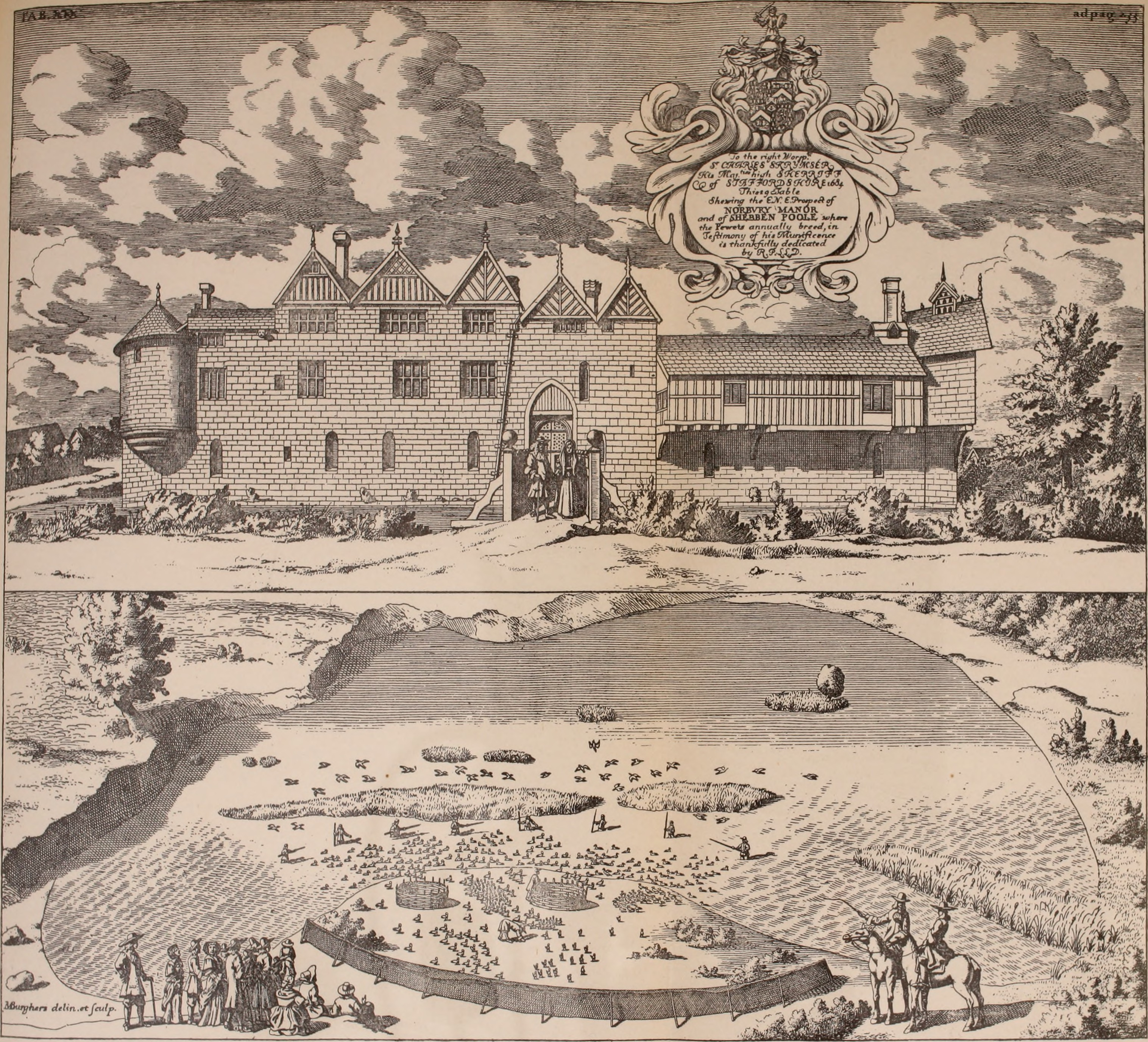 Title: British birds Year: 1907 (1900s) Authors: Subjects: Birds Publisher: London, Witherby & Co Text Appearing Before Image: Sir Charles Skrymsher (1652 - 1709) of Norbury Manor, Eccleshall, and Shebben Poole. Pewets hunting. Image date: circa. 1682 - 1709 Refer Reference to hunting Pewets at Shebben Poole, near Norbury Manor Text Appearing After Image: ^BRITISH BIRDS. Vol. II.. PI. 5.)